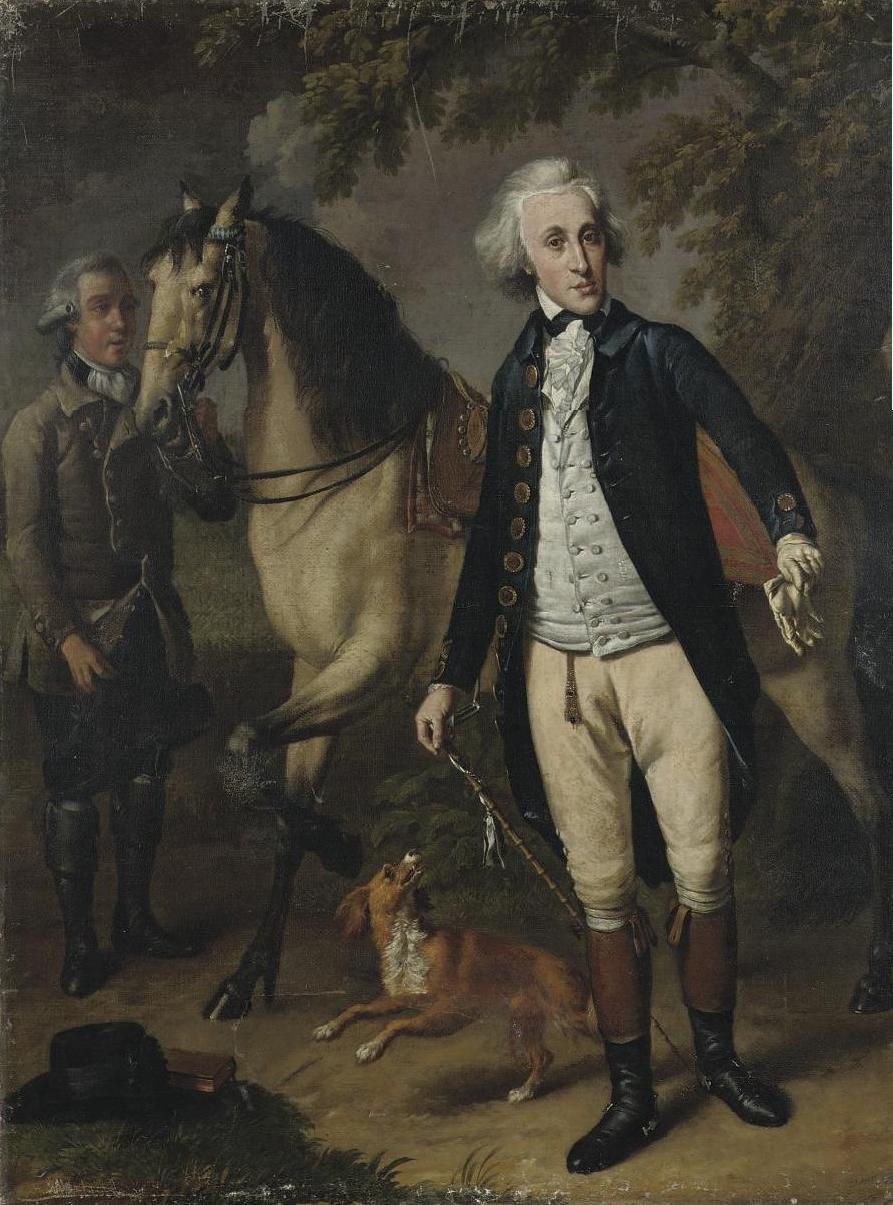 Portrait of Jan van Walré with horse, dog and stableboy